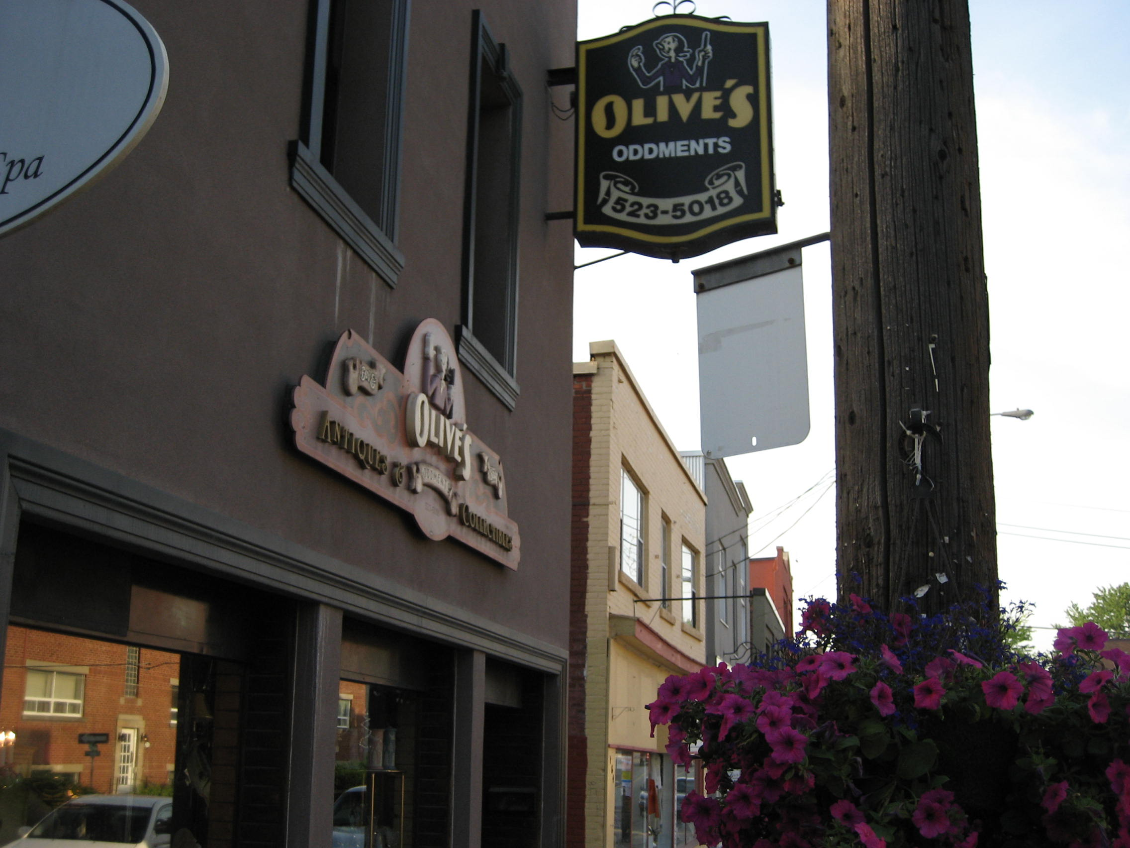 Walking tour, Locke Street South, Hamilton